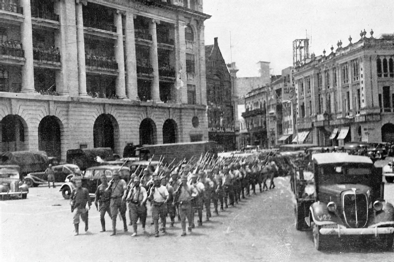 Battle of Singapore, February 1942. Japanese victorious troops march through the city centre.